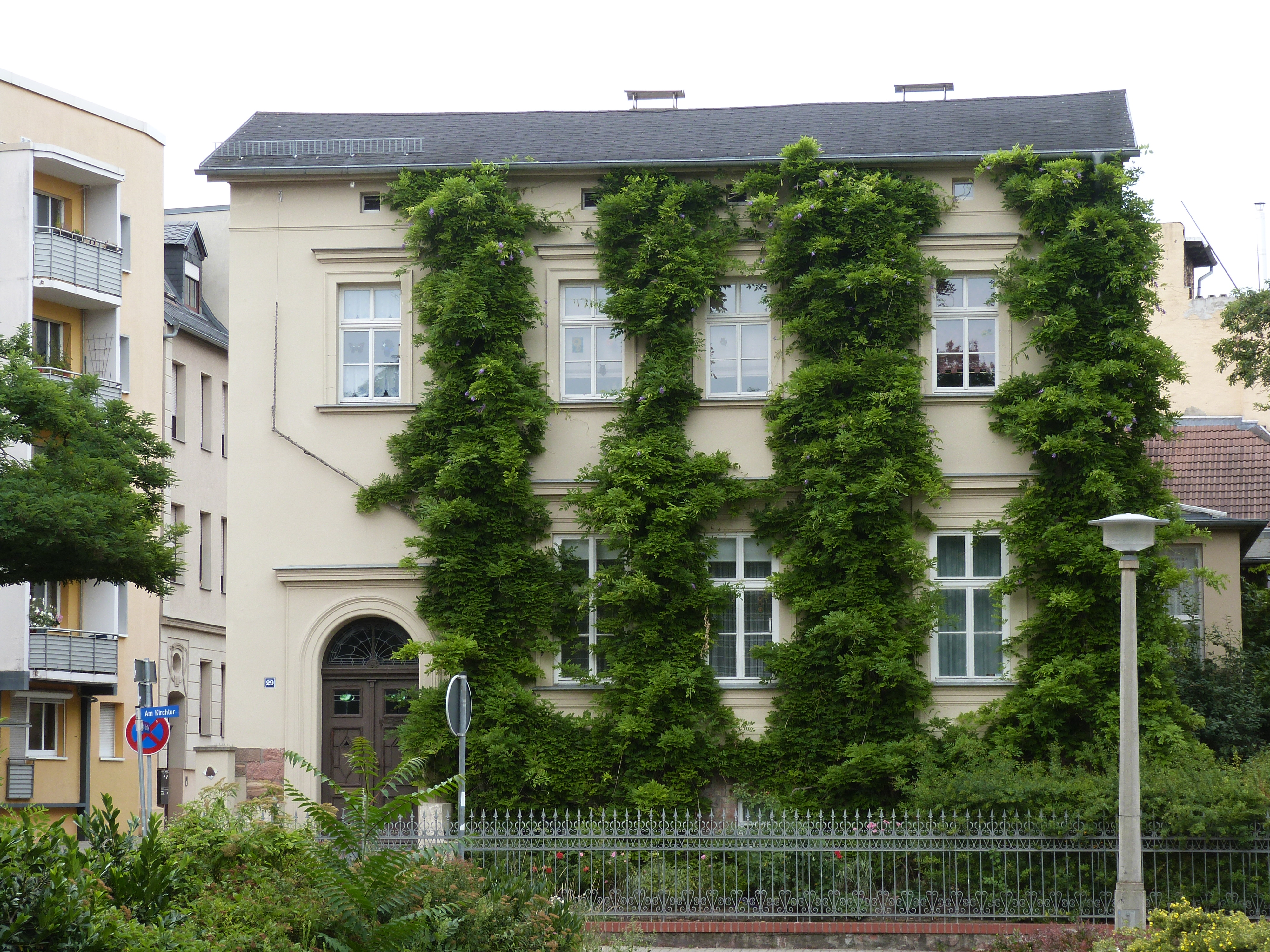 Villa Roß in the Street Am Kirchtor No. 29, Halle (Saale)